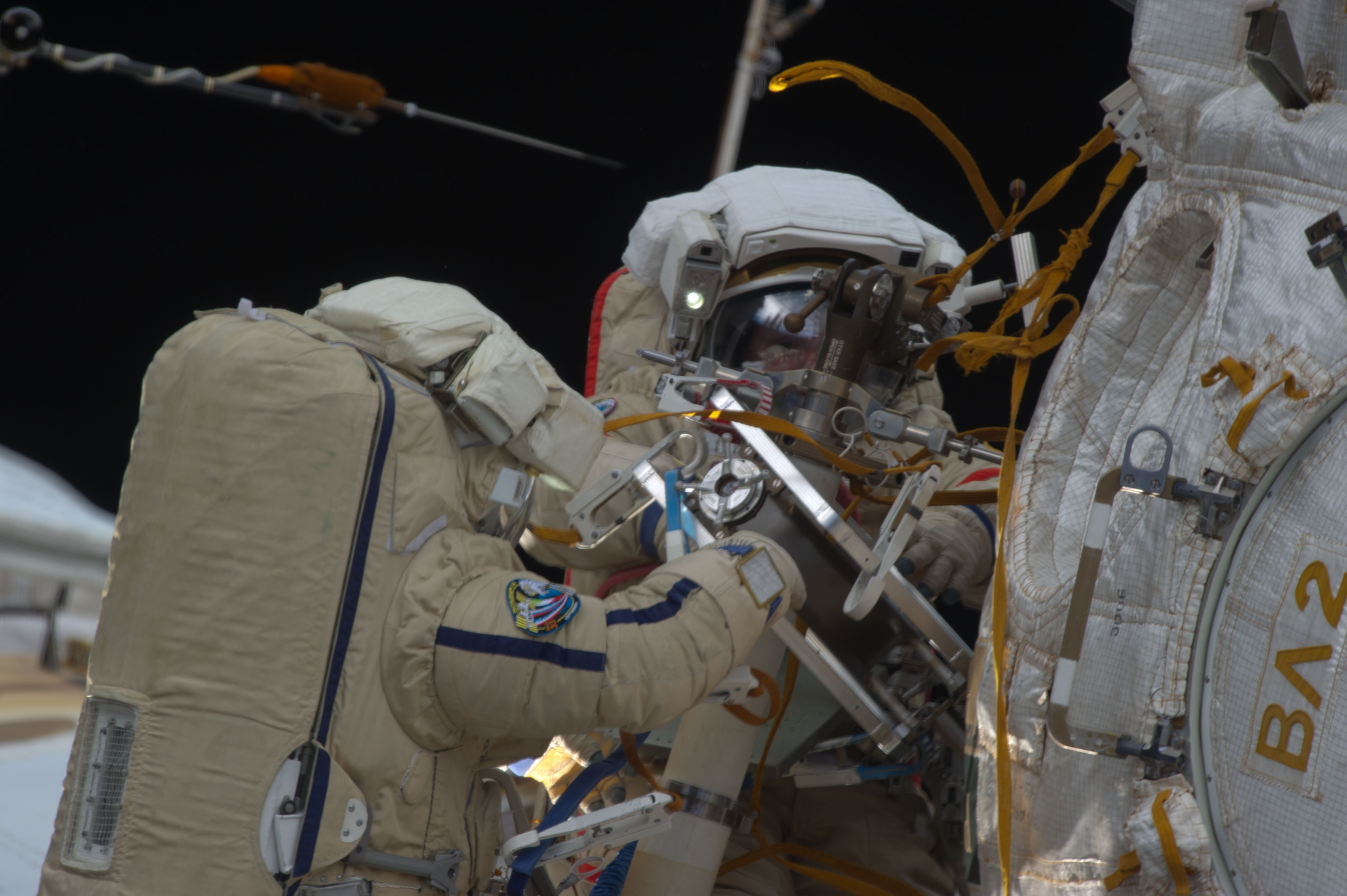 Russian cosmonauts Alexander Misurkin (left) and Fyodor Yurchikhin, both Expedition 36 flight engineers, participate in a session of extravehicular activity (EVA) as work continues on the International Space Station. During the six-hour, 34-minute spacewalk, Misurkin and Yurchikhin replaced an aging fluid flow control panel on the station's Zarya module as preventative maintenance on the cooling system for the Russian segment of the station. They also installed clamps for future power cables as an early step toward swapping the Pirs airlock with a new multipurpose laboratory module. The Russian Federal Space Agency plans to launch a combination research facility, airlock and docking port late this year on a Proton rocket. Yurchikhin and Misurkin also retrieved two science experiments and installed one new one.